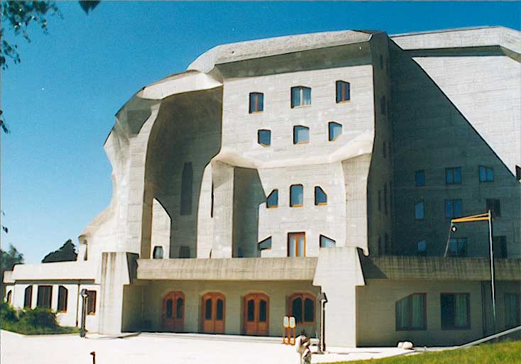 Side view ot the Goetheanum, headquarters of the Anthroposophical Society